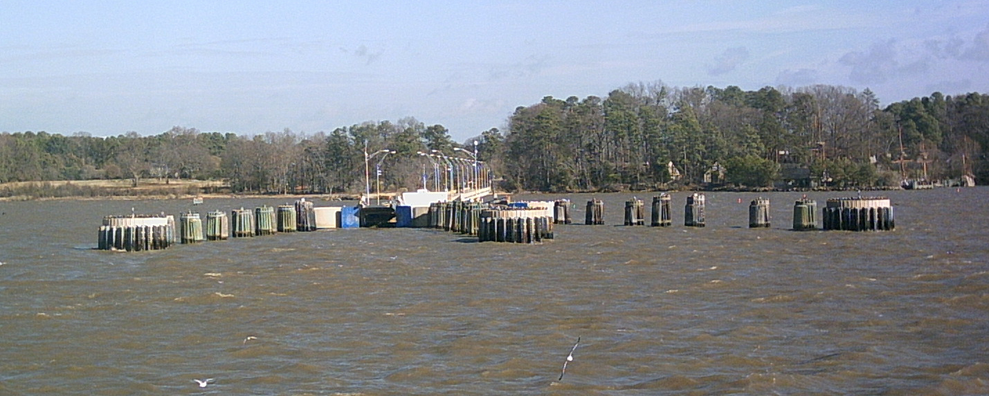 Image cropped from one taken by my mother, who has released copyright